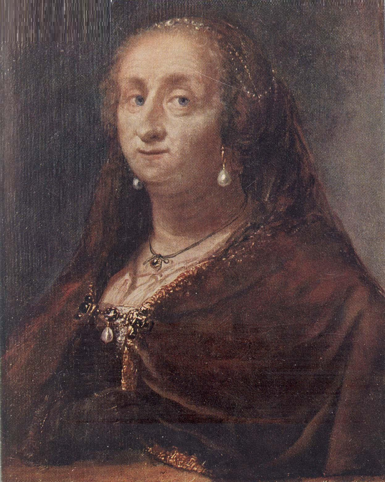 Queen Christina (1626-1689) in old age